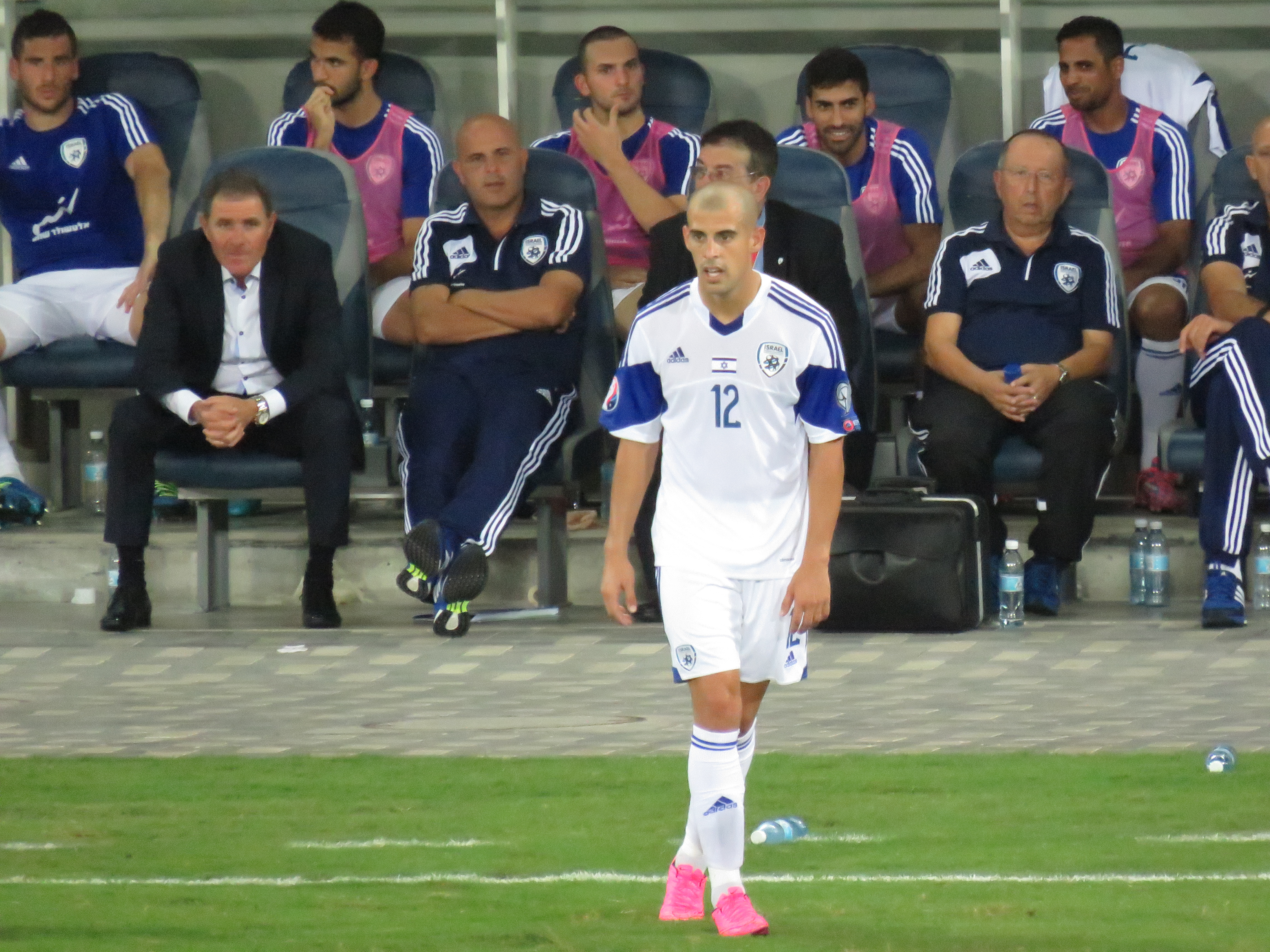 Israel vs. Andorra - September 3, 2015